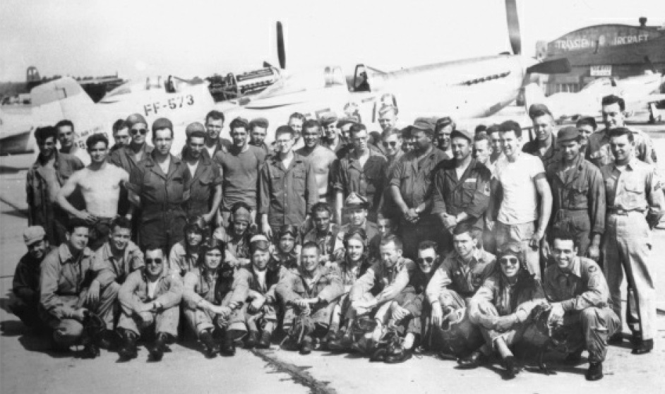 Lieutenant Brent Scowcroft during his early pilot training days with other members of the 82nd Squadron at Grenier Airfield in 1948.